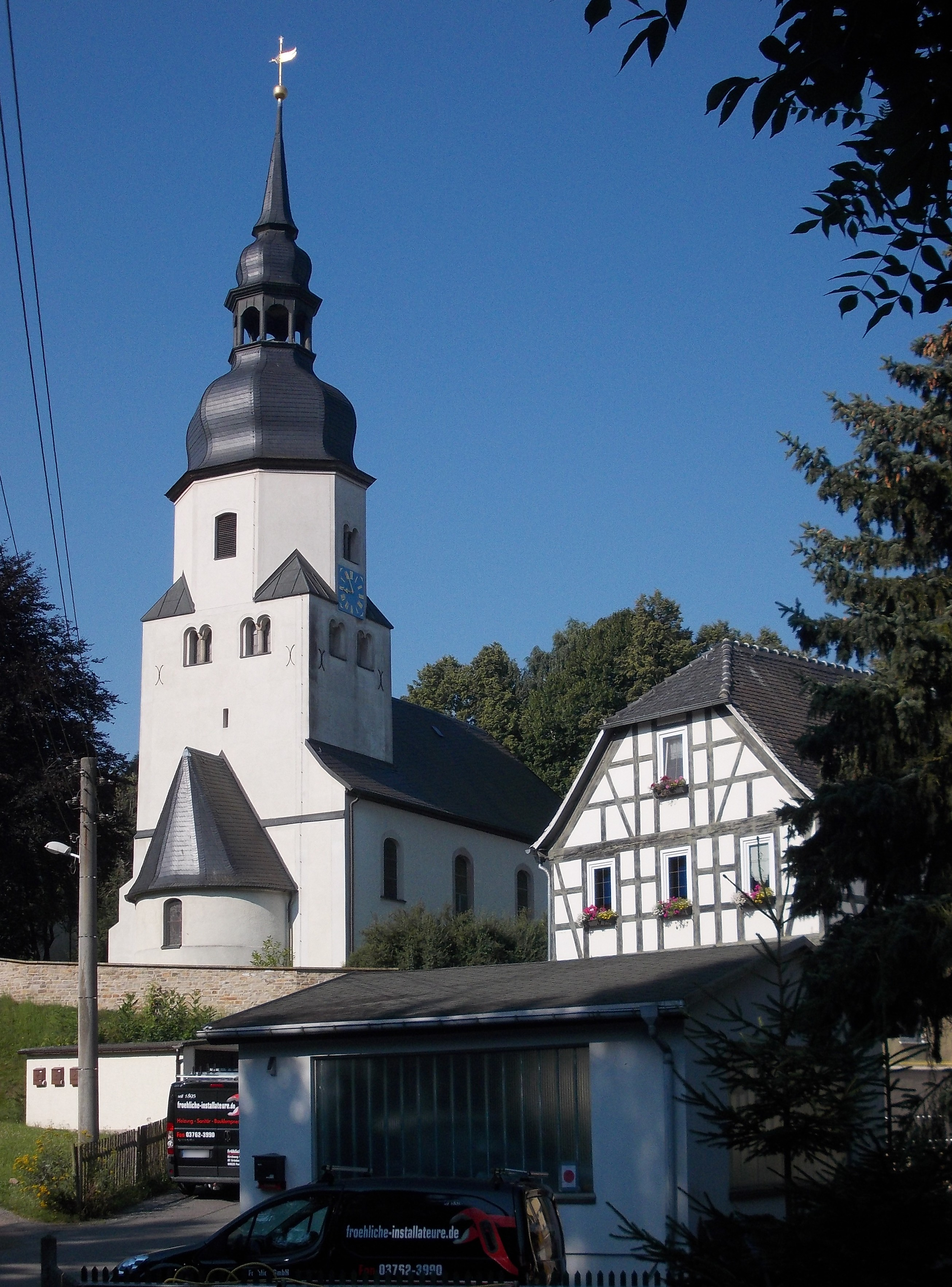 Grünberg church (Ponitz, Altenburger Land district, Thuringia)